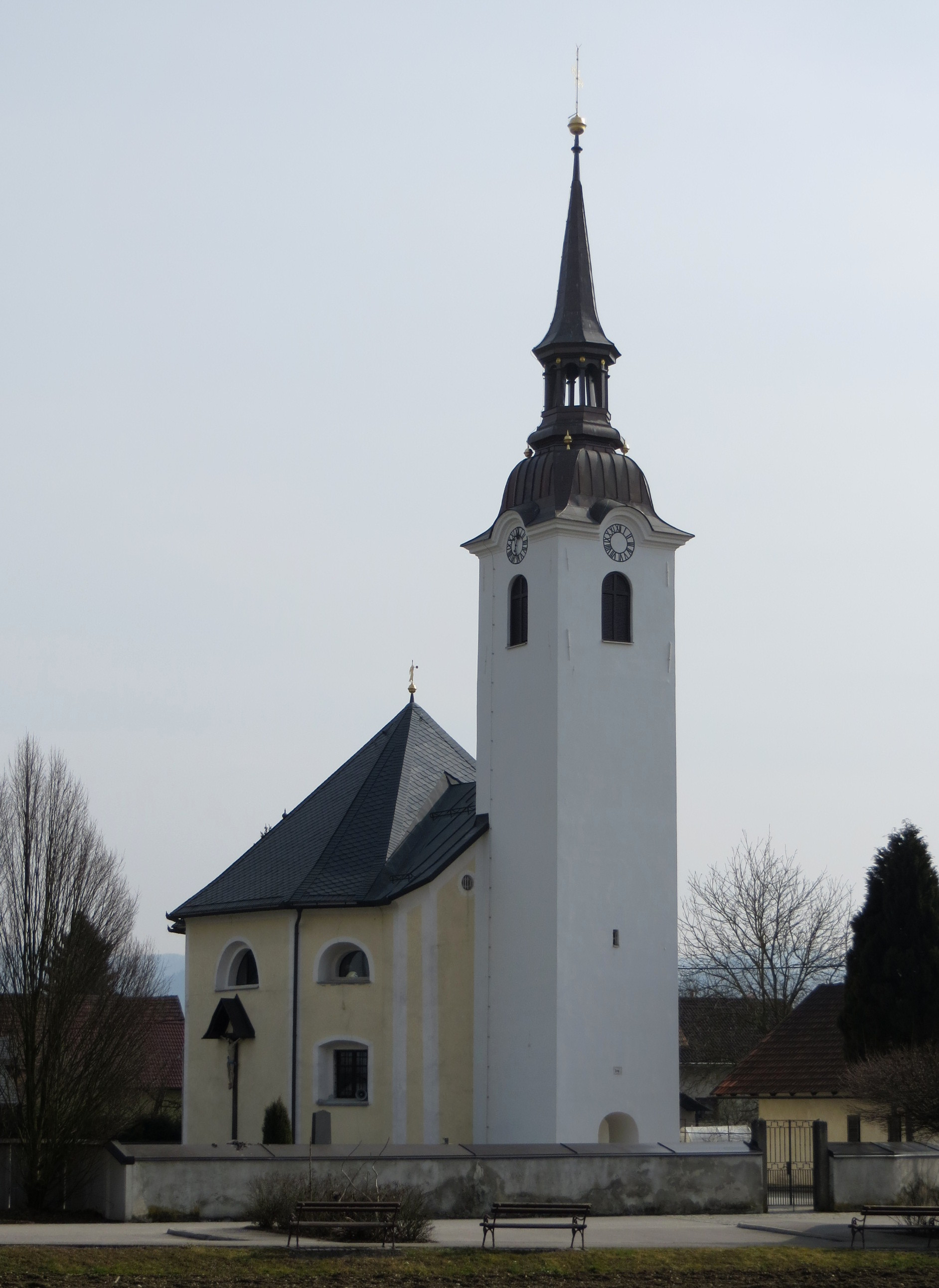 Holy Cross Church in Beričevo, Municipality of Dol pri Ljubljani, Slovenia